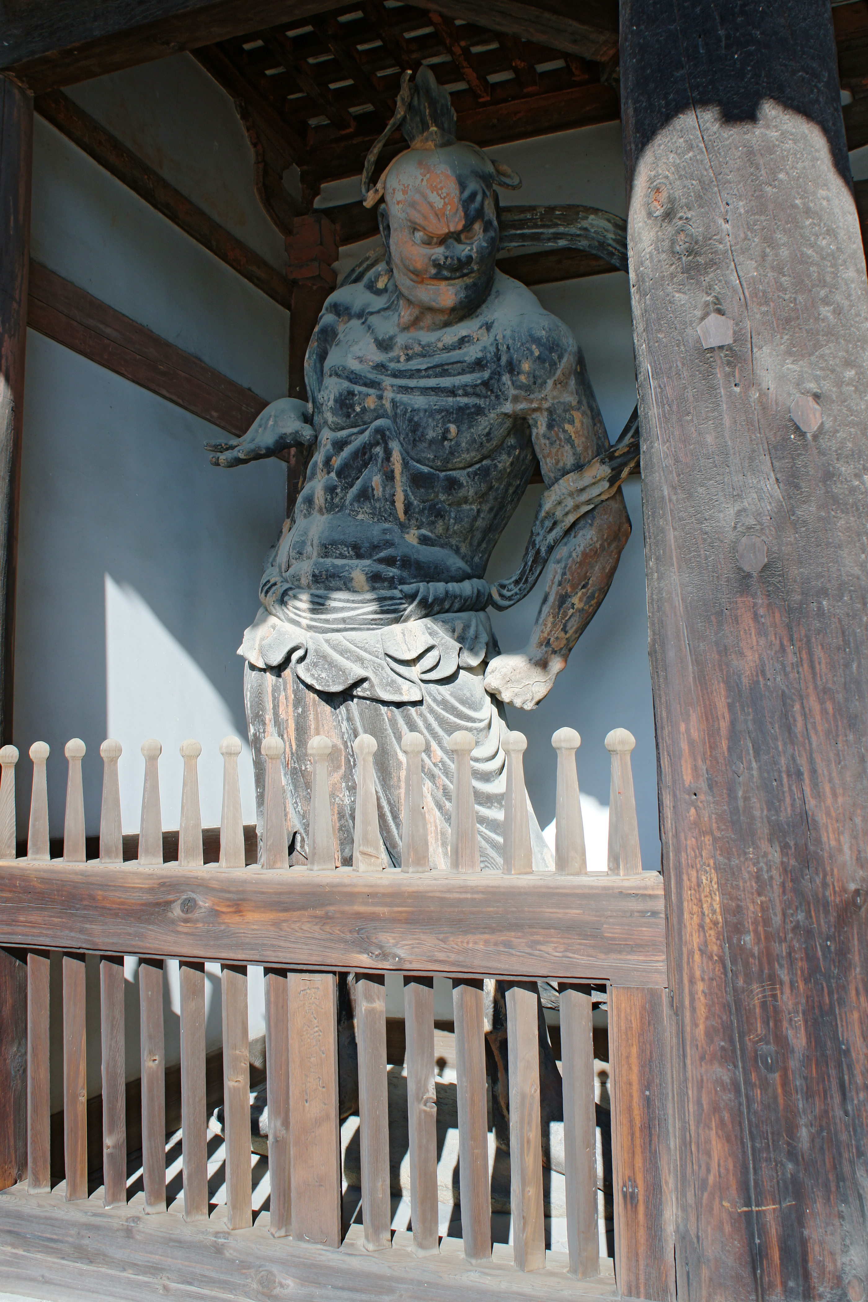 Kongōrikishi of Hōryū-ji is a Important Cultural Property of Japan. Hōryū-ji is a Buddhist temple in Ikaruga, Nara prefecture, Japan. It was registered as part of the UNESCO World Heritage Site "Buddhist Monuments in the Hōryū-ji Area".